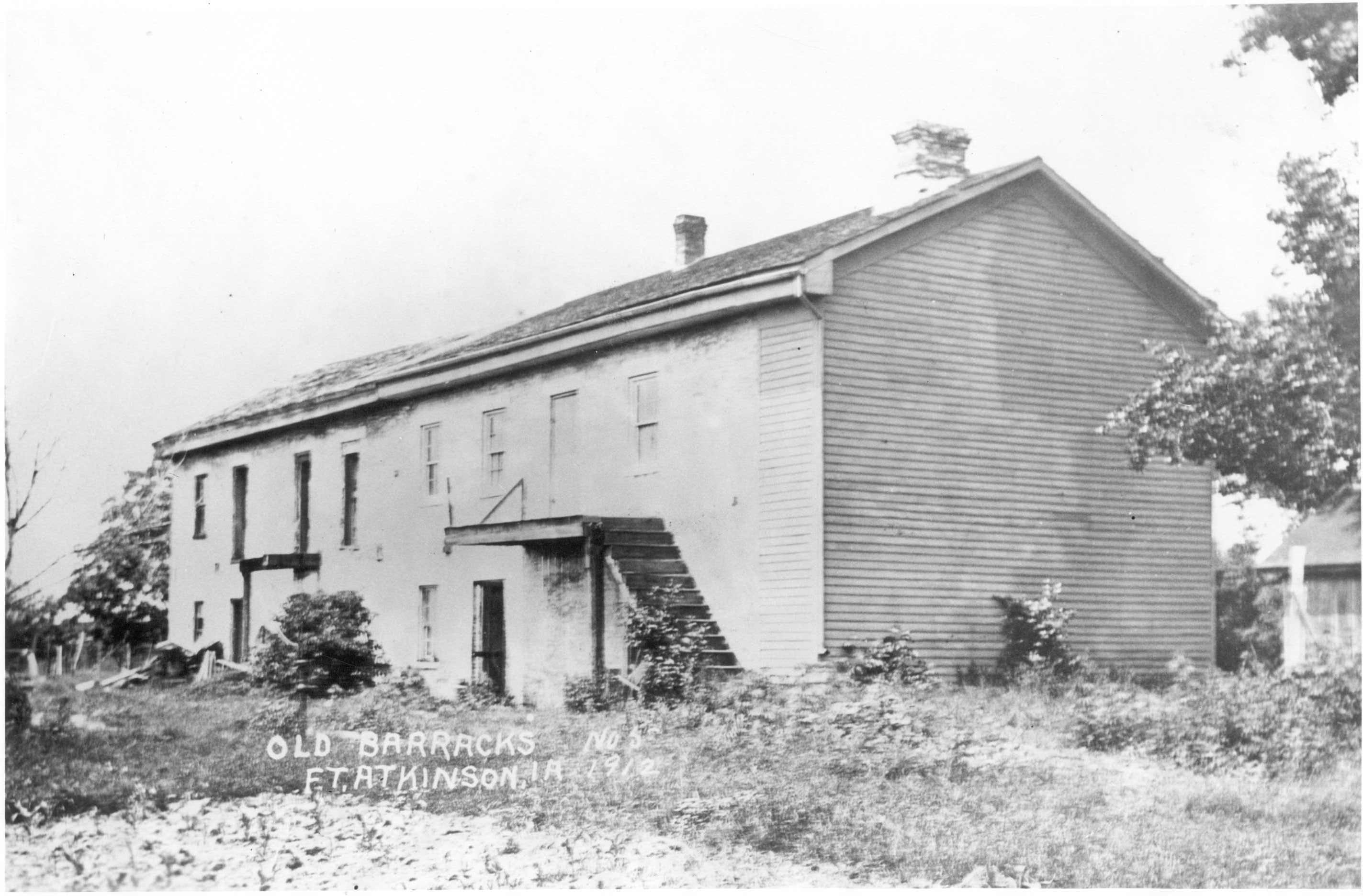 Fort Atkinson, 1912 photo